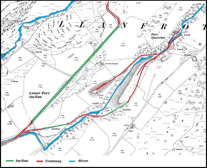 Map of the Parc Slate Quarry, Gwynedd, Wales from 1915, with coloured overlays to show the tramways and rivers